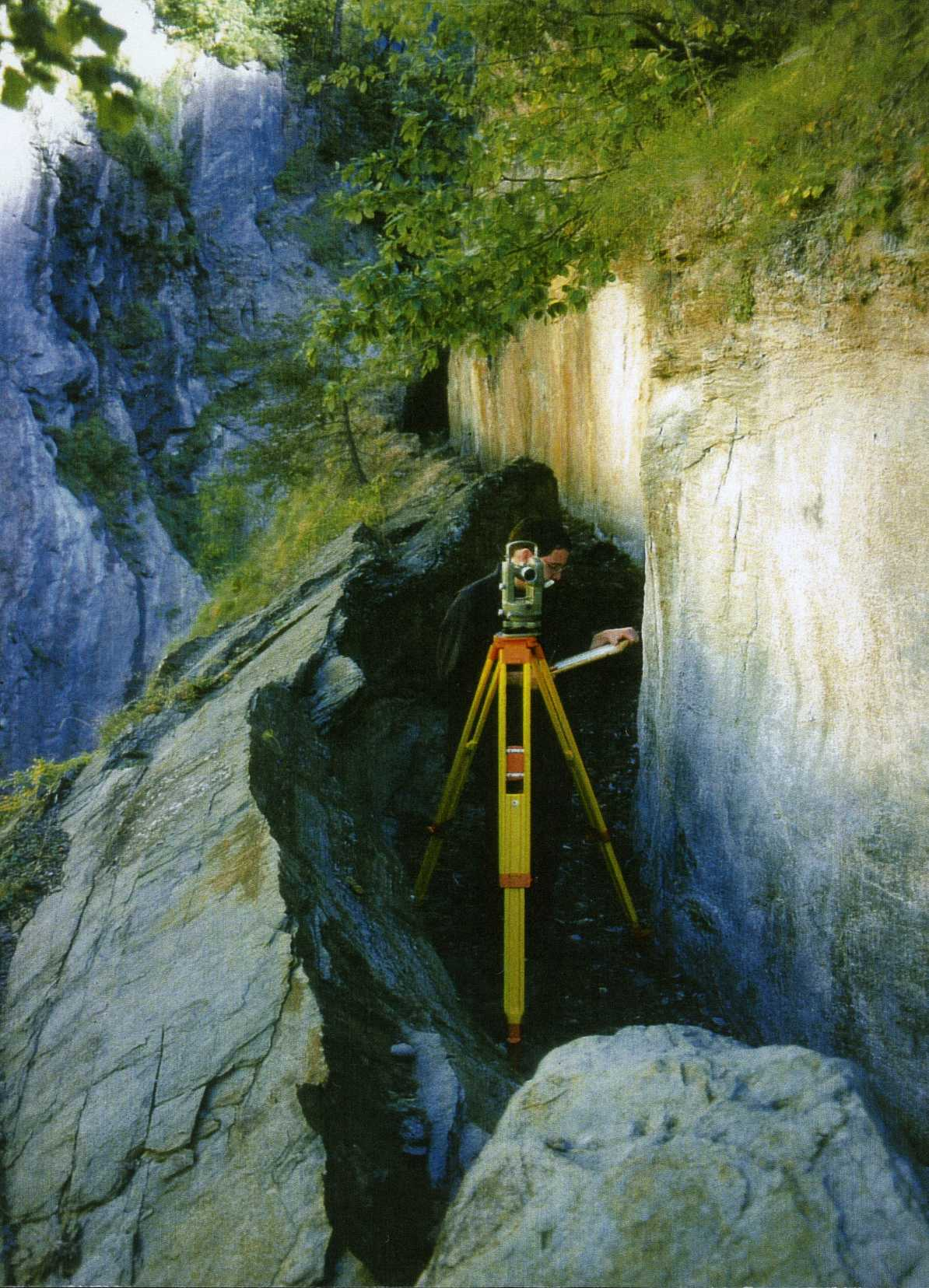 Roman water conduit above the Pont d'Aël high in the cliffs of the Cogne Valley, a side valley of the Aosta valley, Italian Alpes. The aqueduct bridge was built in 3 BC. It carried water to agricultural lands and to washings plants of nearby gold and iron mines.